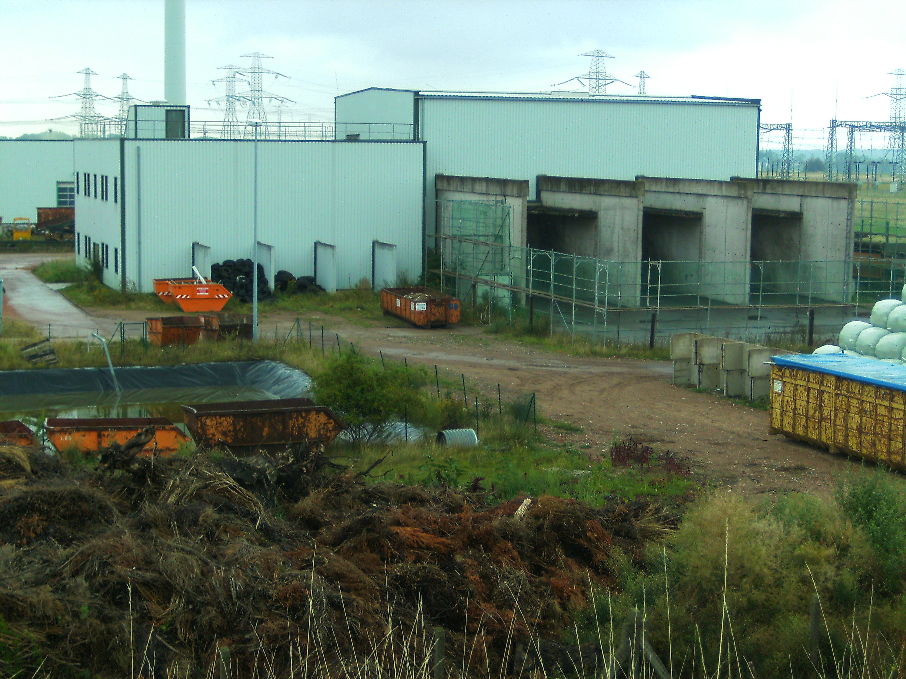 Hall of canceled HVDC back-station seen from West. In the three bays, it was planned to install the transformers of the static inverter. The left part of the building was planned to install the control facilities. Building the static inverter was given up after German reunifaction, as one decided to synchronize the power grids of former East and West Germany and to interconnect them directly. The hall is today part of a recycling yard.